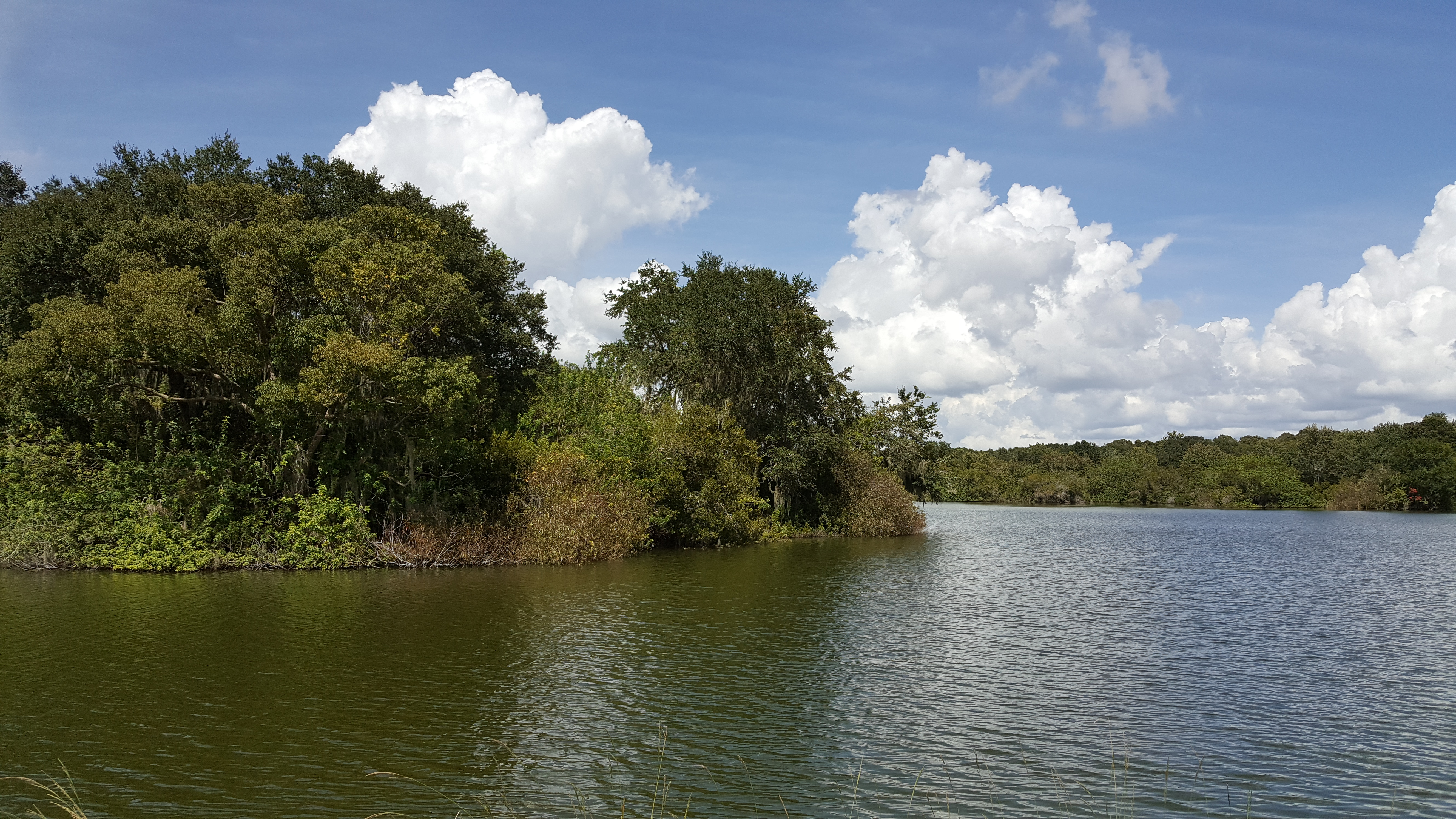 Small pond in Saddle Creek Park which is located between Winter Haven and Lakeland in Polk County, Florida.